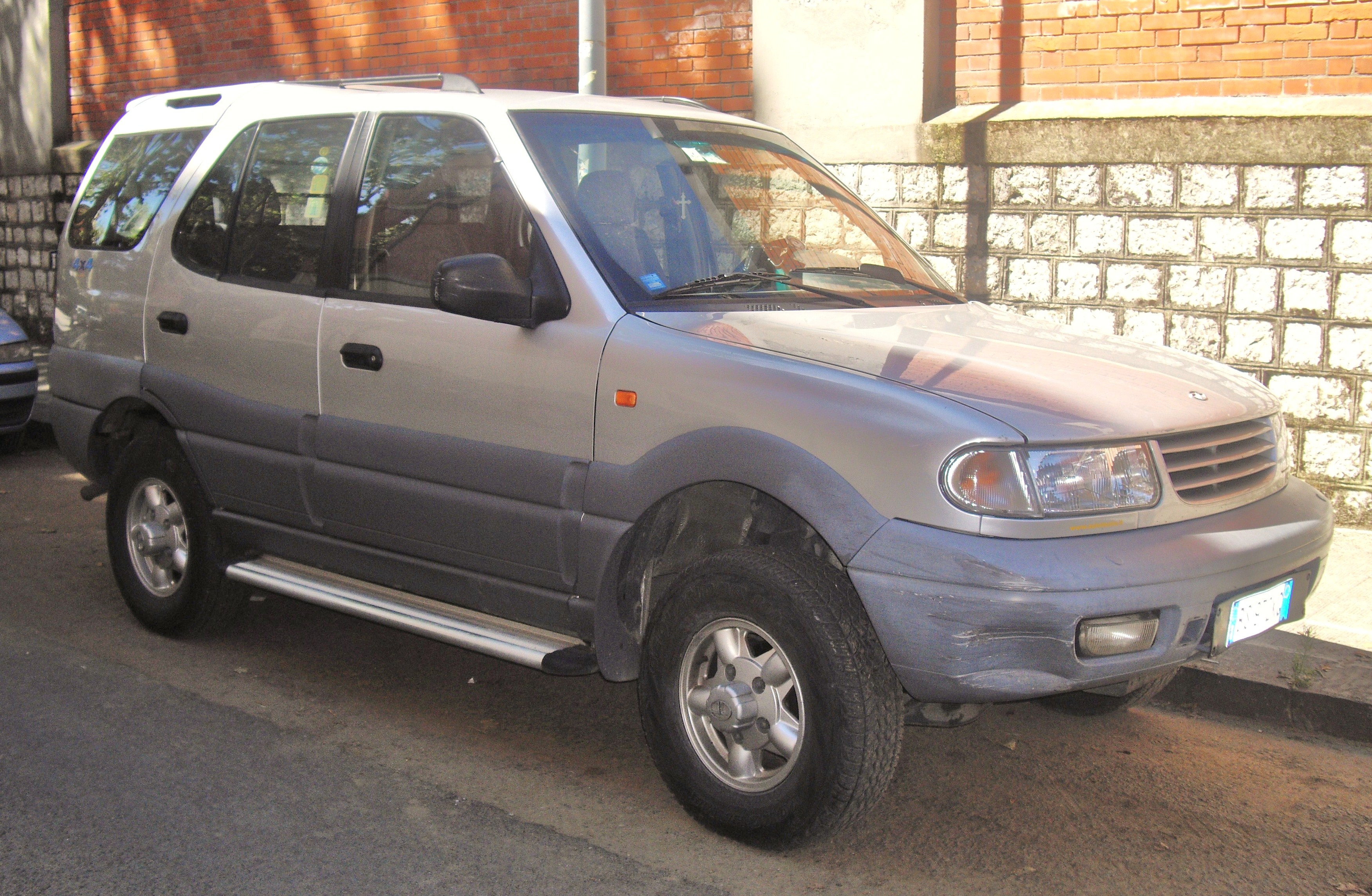 Tata Safari